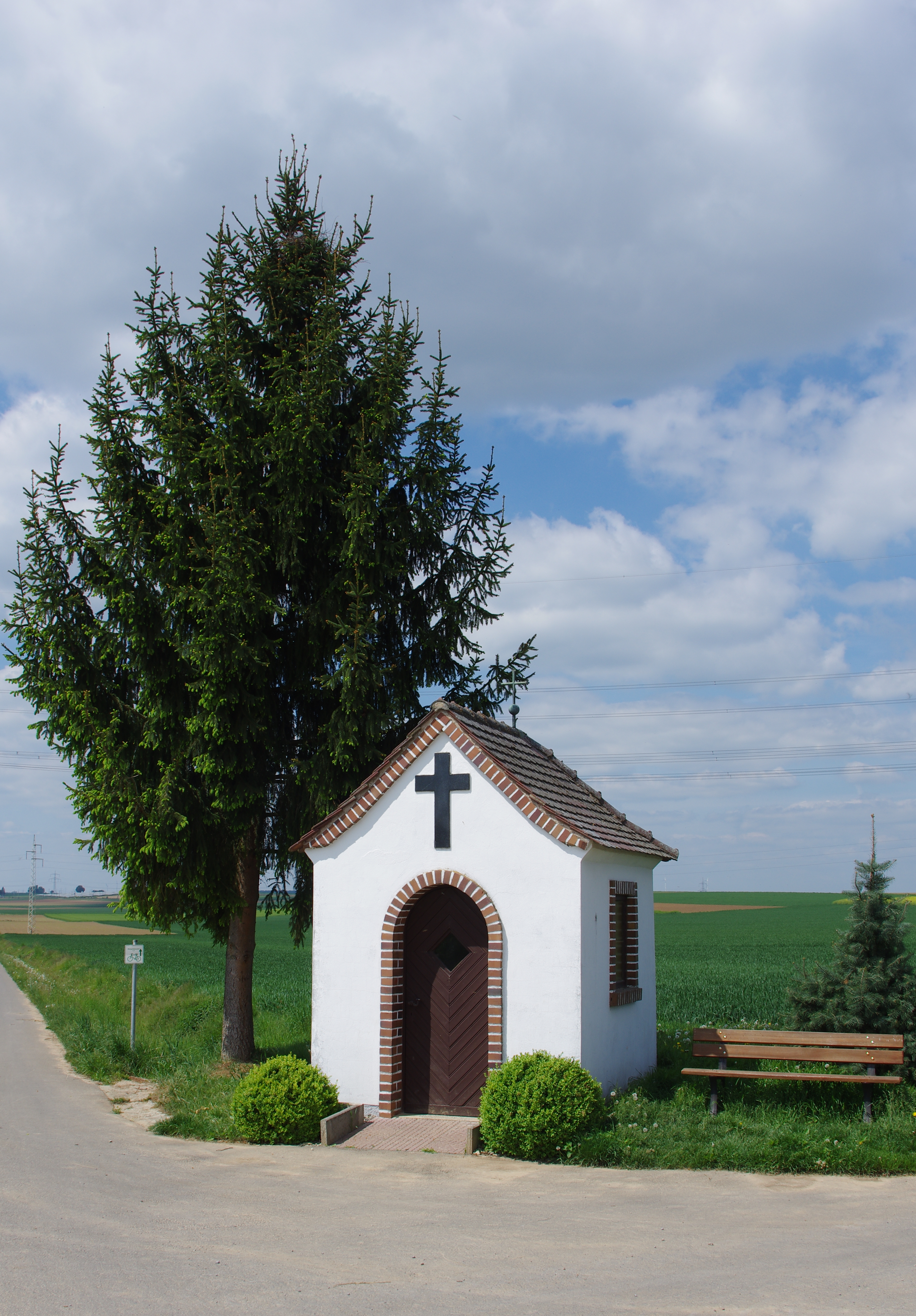 Google Maps - Google Earth